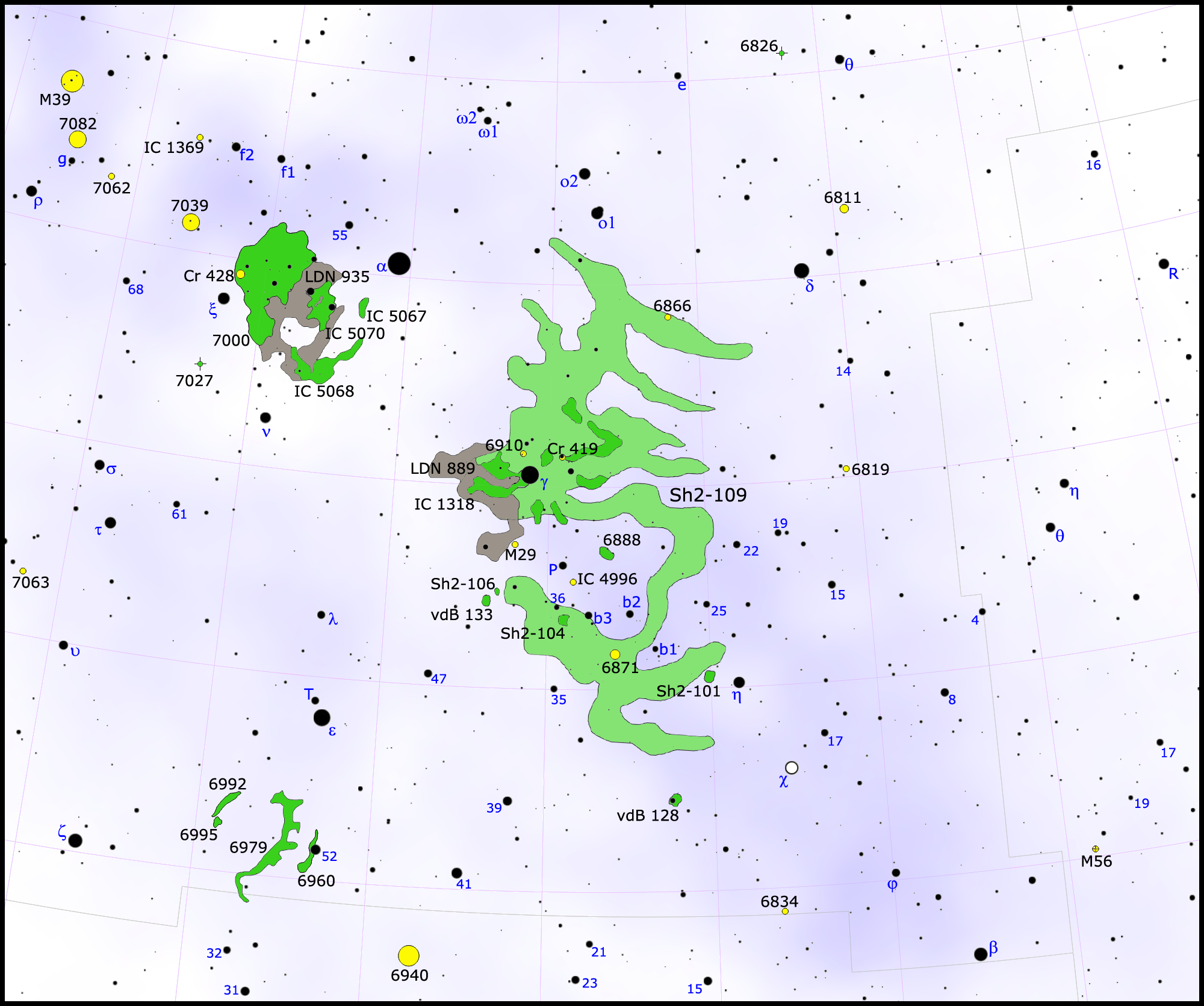 Map of Sh2-109.